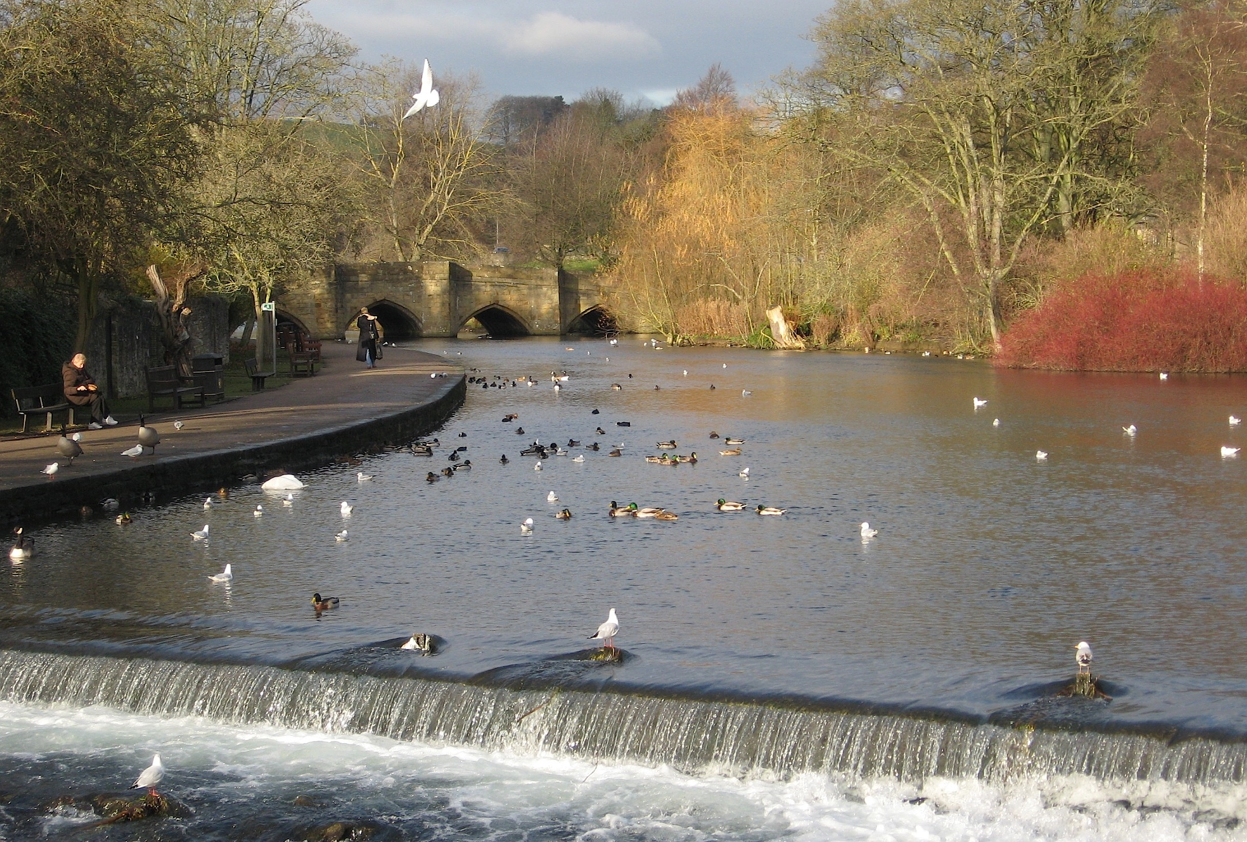 View of riverside park, with five-arch, 13th C. bridge, Bakewell, Derbyshire, England